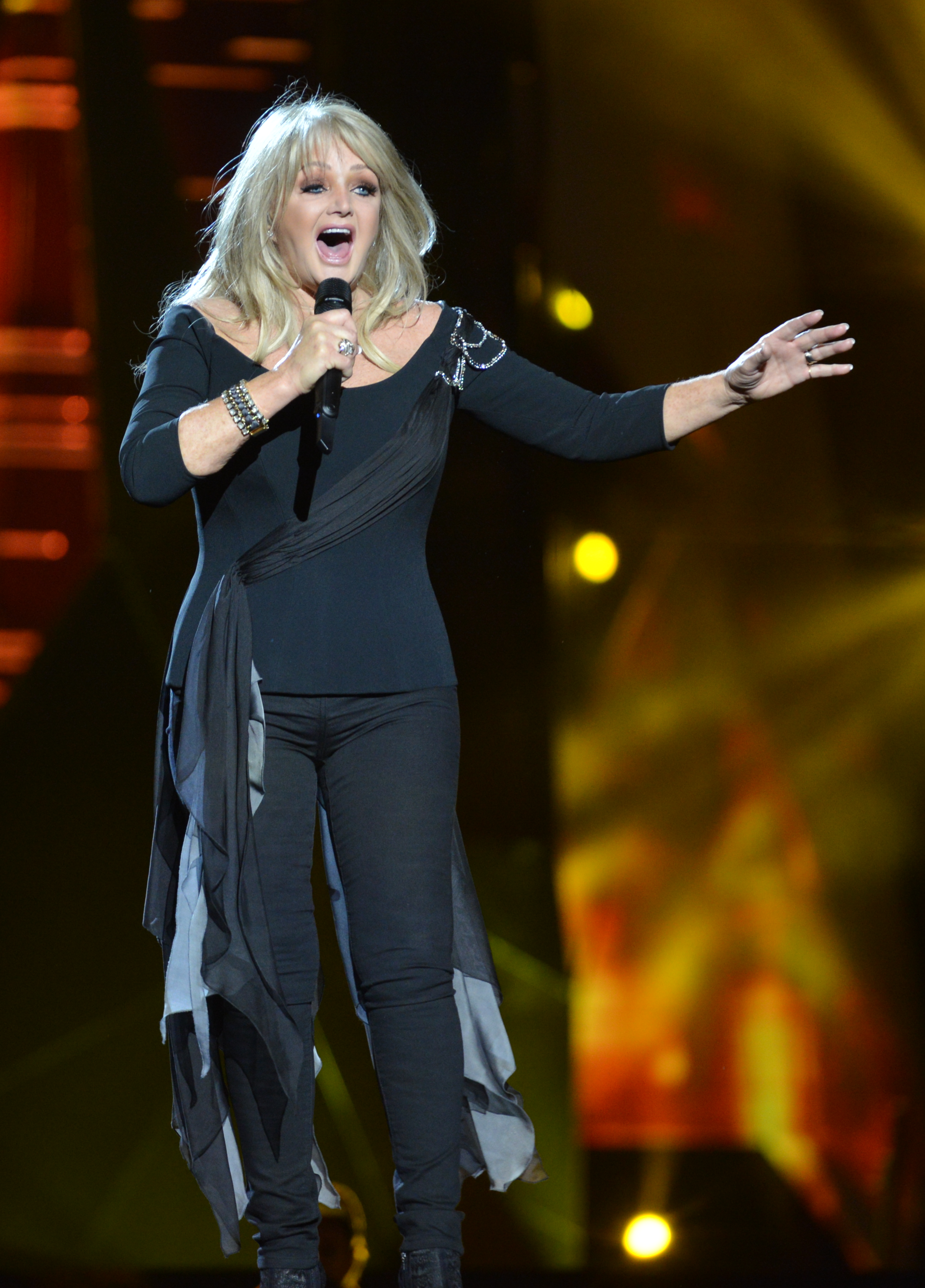 Bonnie Tyler representing United Kingdom with the song "Believe in Me" during the first dress rehearsal for "the Big Five" in the Eurovision Song Contest 2013 Malmö. (Help translate this text)